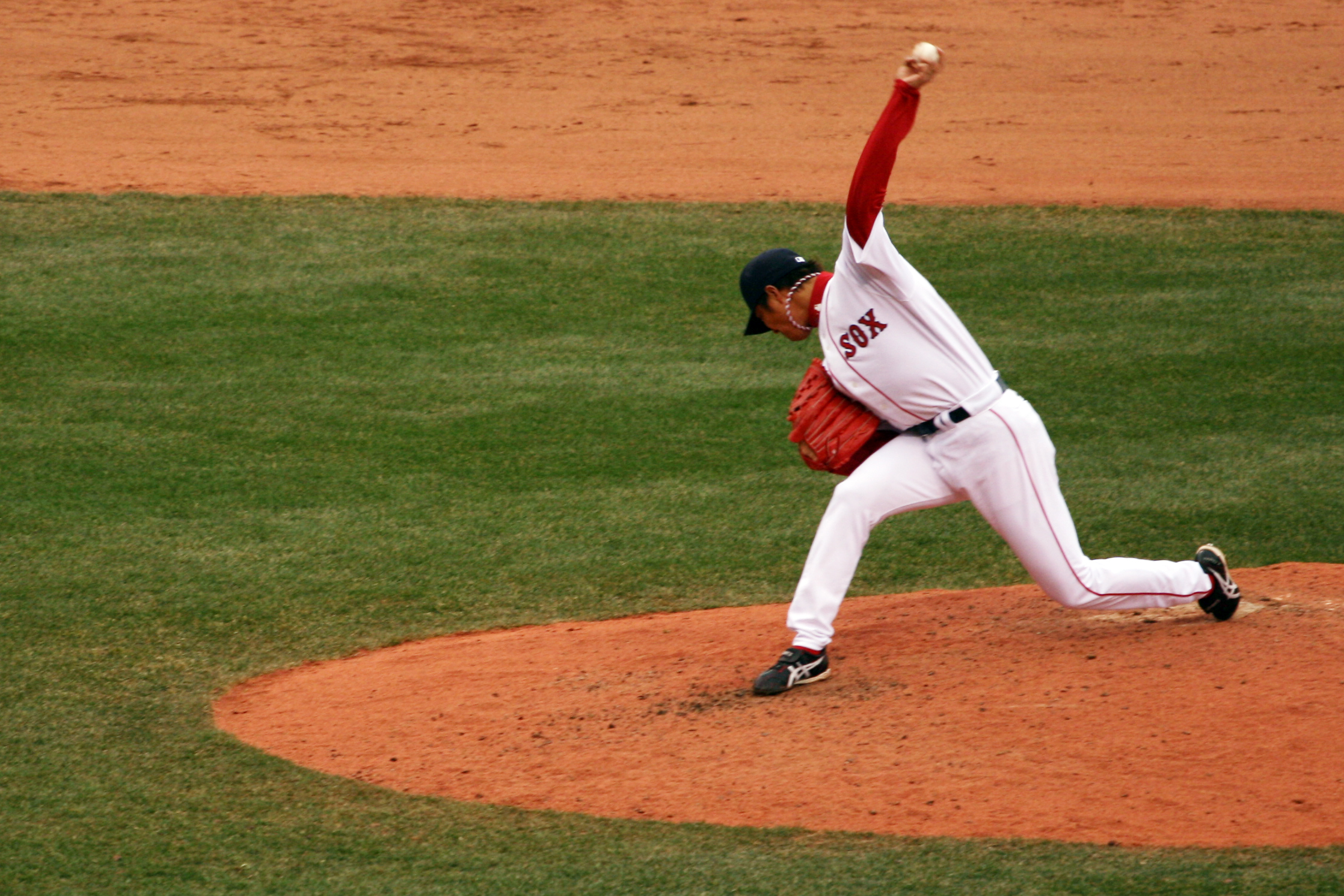 Hideki Okajima pitching against the Los Angeles Angles of Anaheim in April of 2007. This image demonstrates his unusual pitching style.